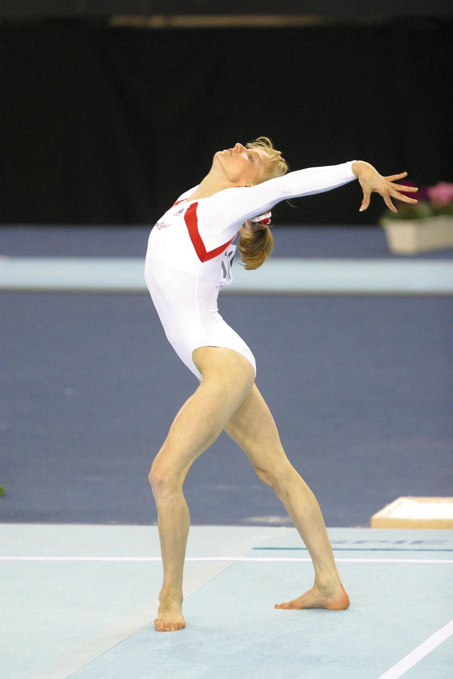 World Artistic Gymnastics Championships in Debrecen (HU) 22/11/2002